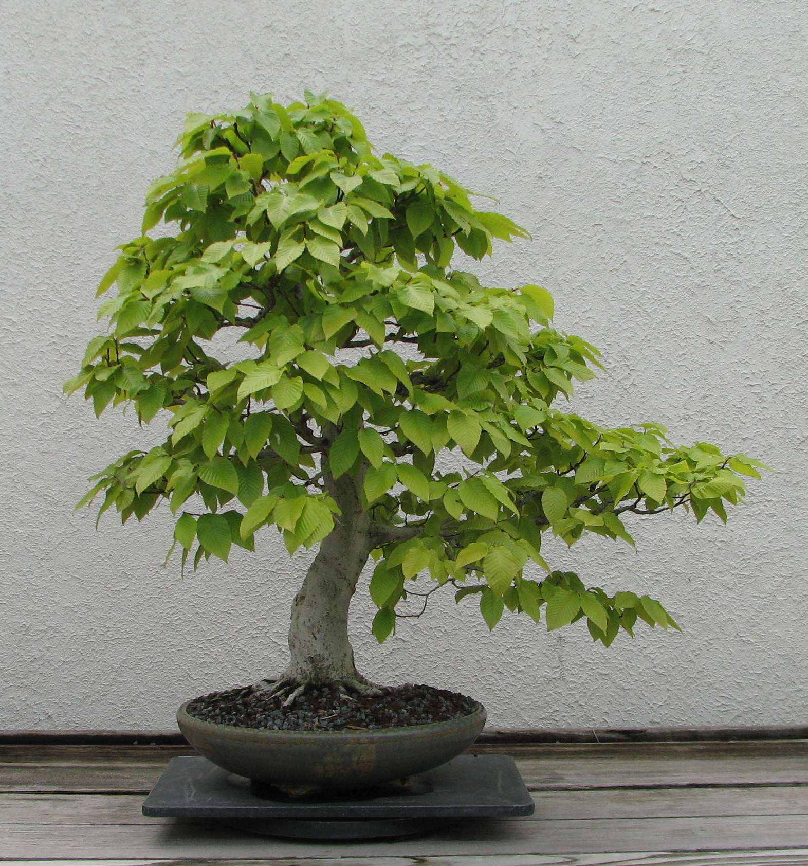 An American Beech (Fagus grandifolia) bonsai on display at the National Bonsai & Penjing Museum at the United States National Arboretum. According to the tree's display placard, it has been in training since 1979. It was donated by Fred H. Mies. This is the "back" of the tree.